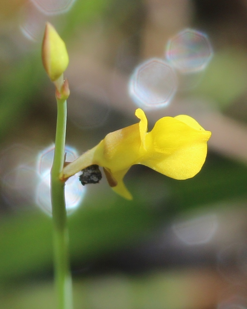 Utricularia bifida in Imō Wetland